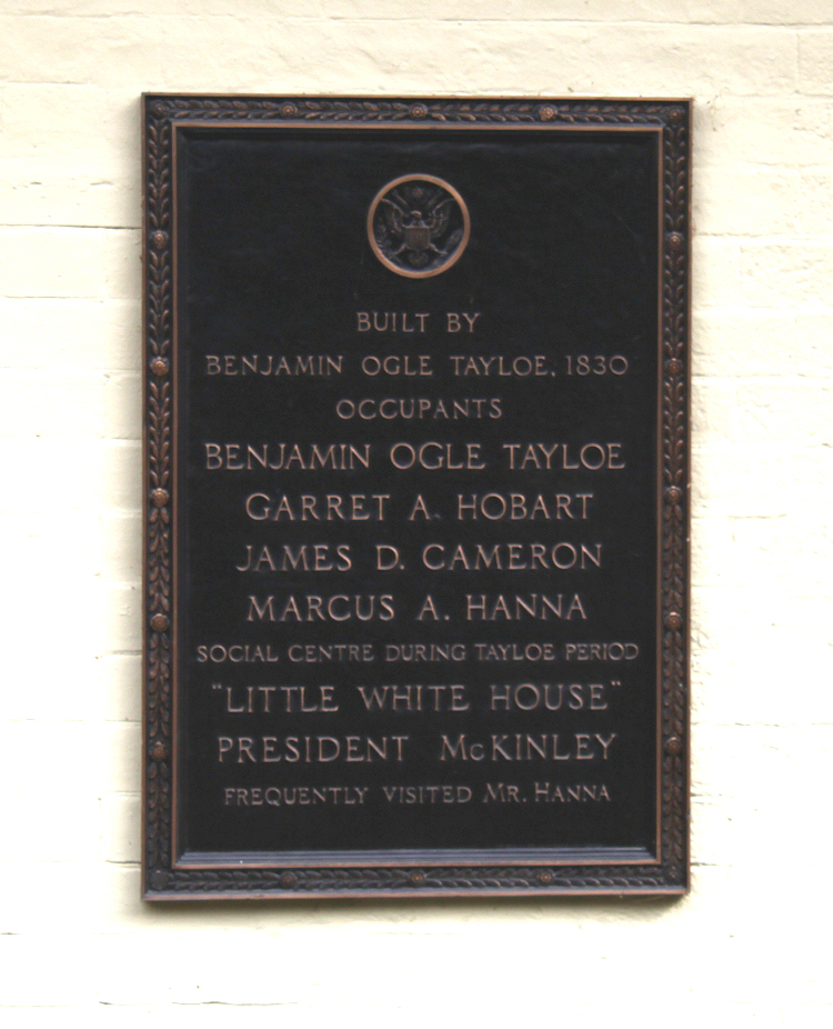 Plaque on the Benjamin Ogle Tayloe House, located at 21 Madison Place NW, Washington, D.C. The plaque notes some of the reasons why the structure is historic.